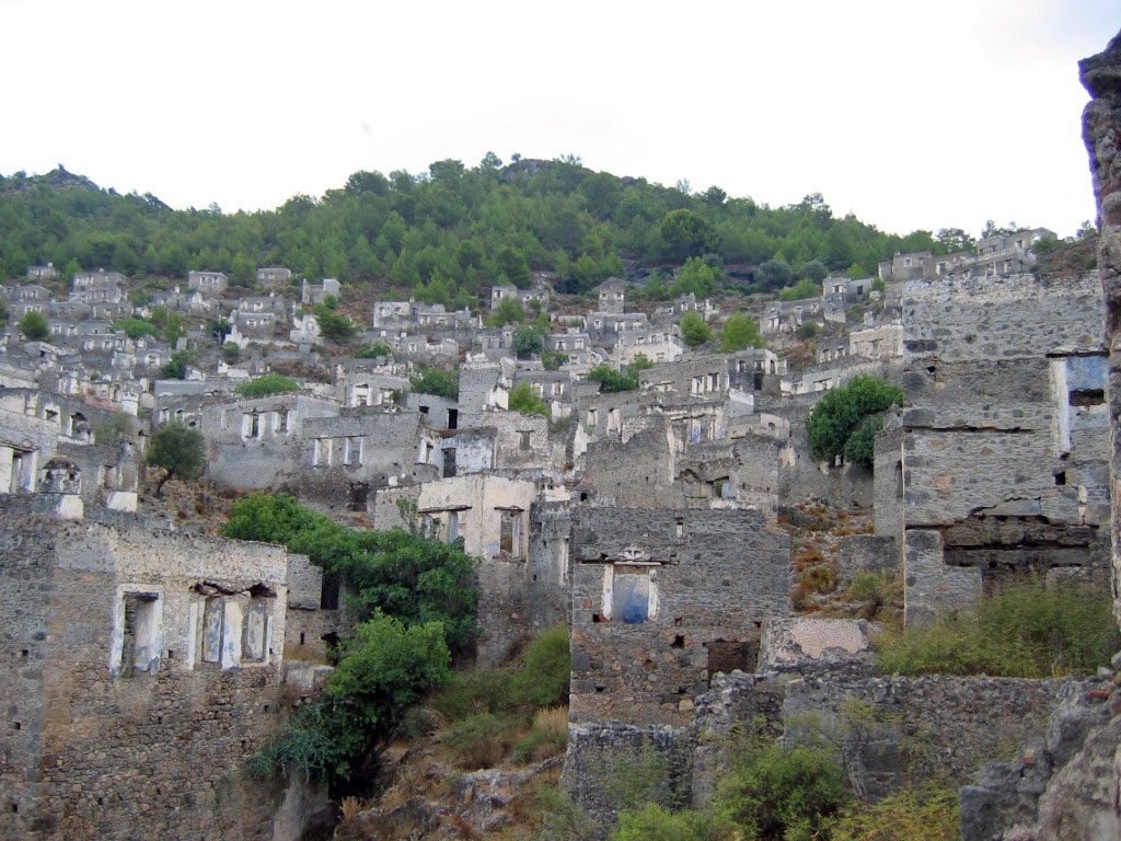 View up the hill inside Kayaköy village near Fethiye, Turkey.